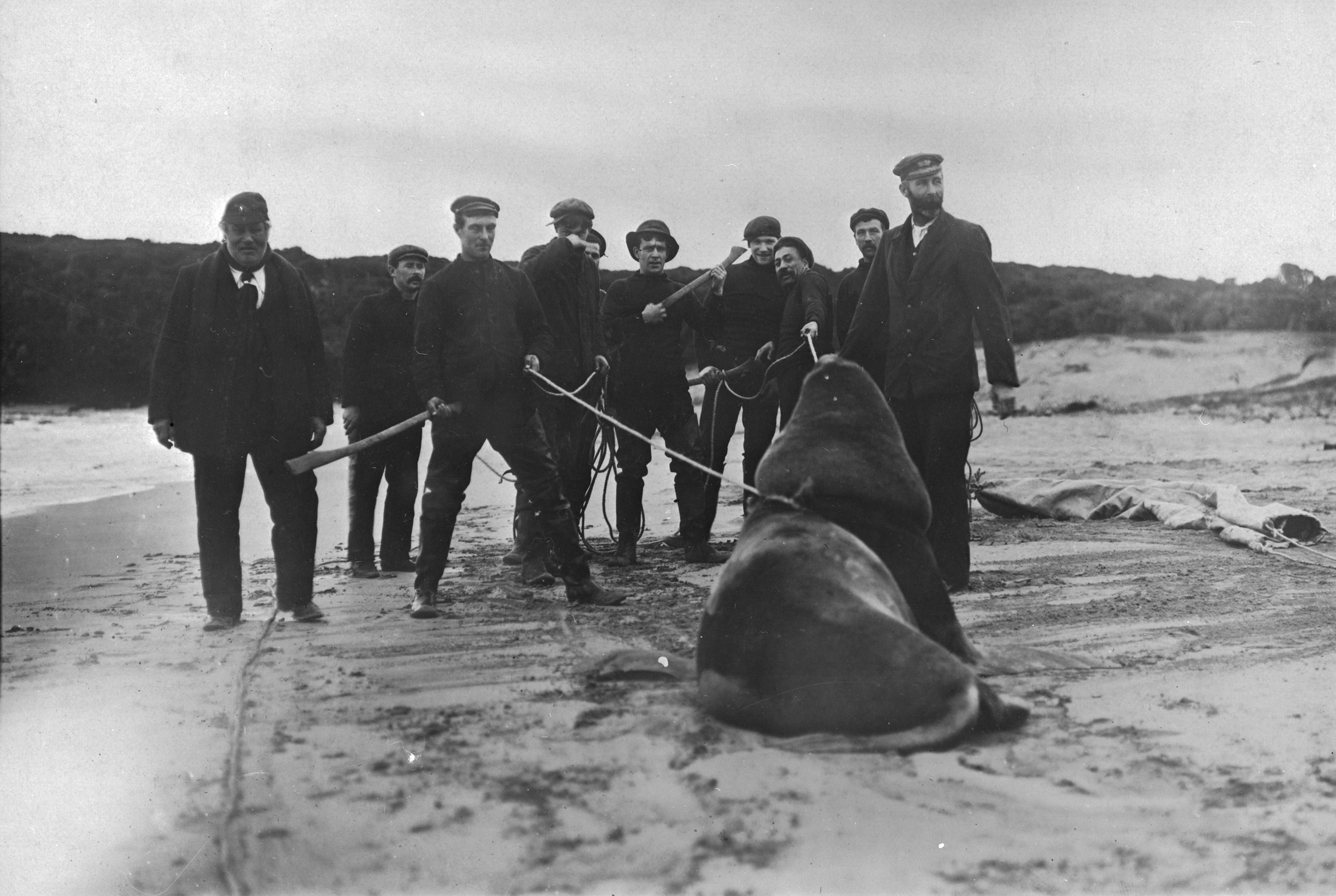 Captain Bollons and crew capturing a sea lion, 1909 Reference Number: 1/2-052159-F Unidentified photographer Original negative Photographic Archive, Alexander Turnbull Library Find out more about this image on our Manuscripts + Pictorial website